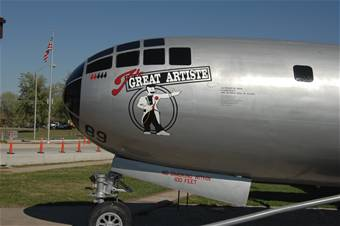 B-29A-40BN 44-61671 Great Artiste Whitman AFB